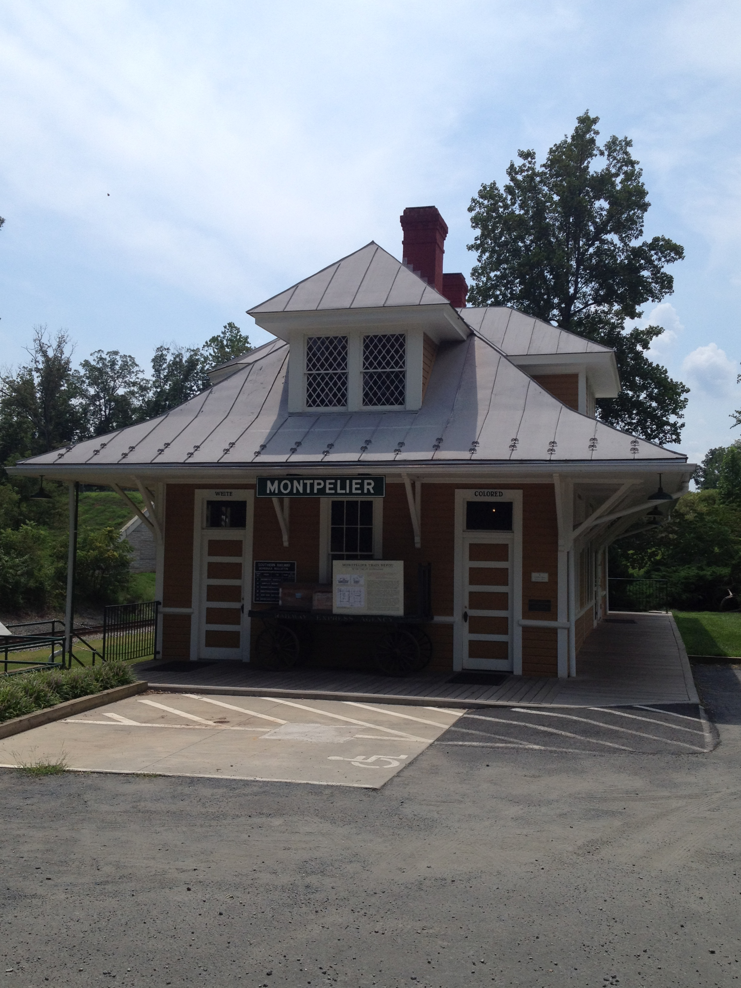 Montpelier Rail Depot and US Post Office, Montpelier Station, Virginia - situated outside the main entrance to the Montpelier Mansion on Virginia State Route 20.